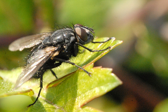 Bellardia pandia from Commanster, Belgian High Ardennes .